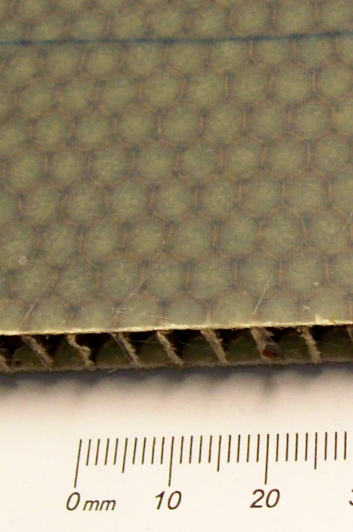 honeycomb panel used in aircraft